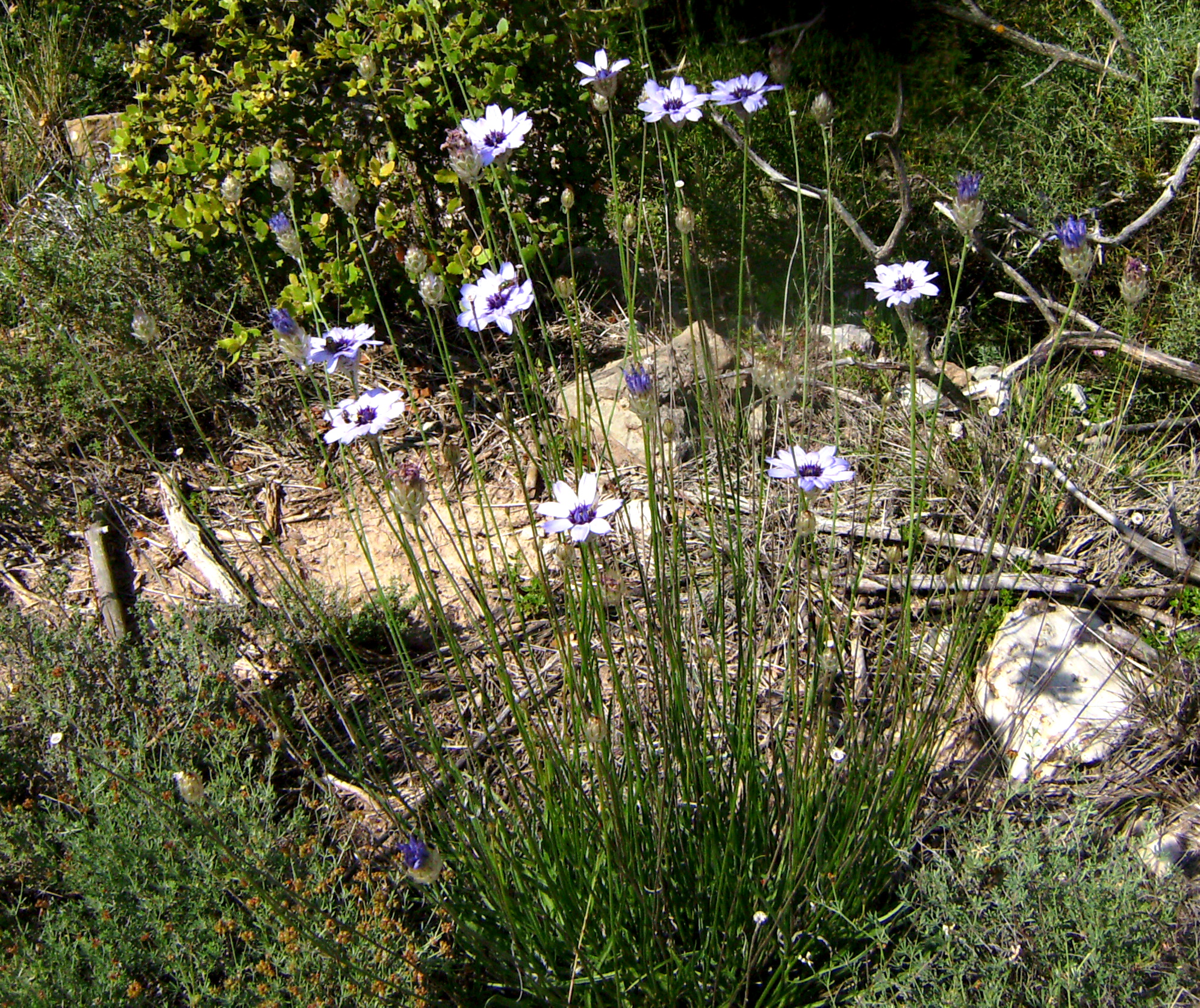 Catananche caerulea (Catalan name "cerverina")in the wild, Castelltallat, Catalonia